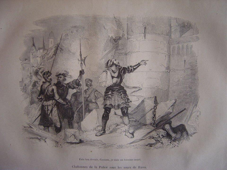 Illustration of battle of Ruvo by René de Moraine